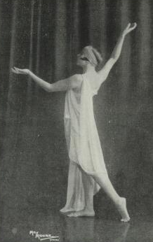 A young white woman, in a standing dance pose, wearing loose white draped cloth and a headwrap. She is barefoot, in front of a curtain.